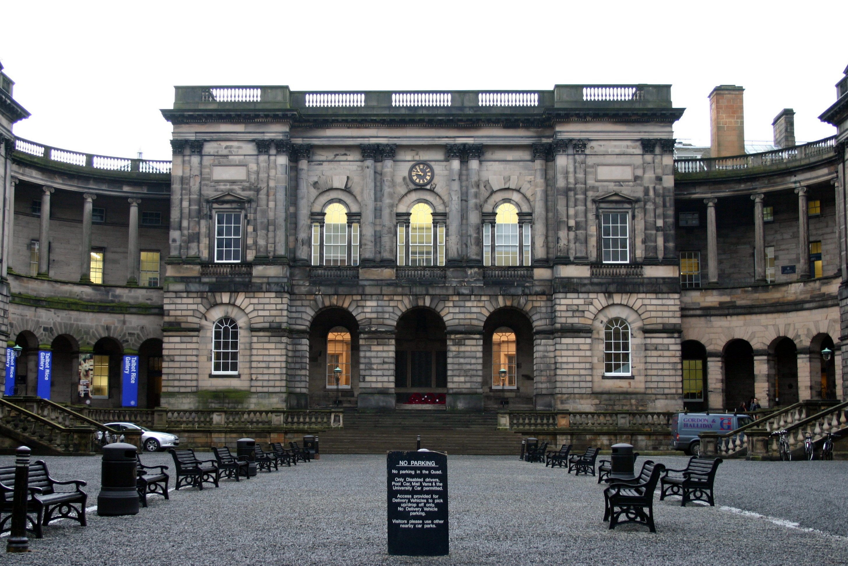 The Old College at The University of Edinburgh. I went here for a job interview. This. incidentally, is the 1500th image I've uploaded to Flickr.